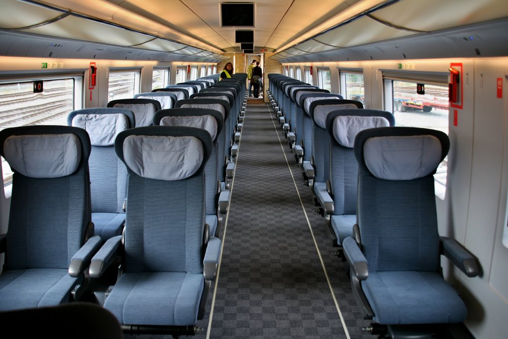 One of the two preferente class cars on the Velaro E high-speed train